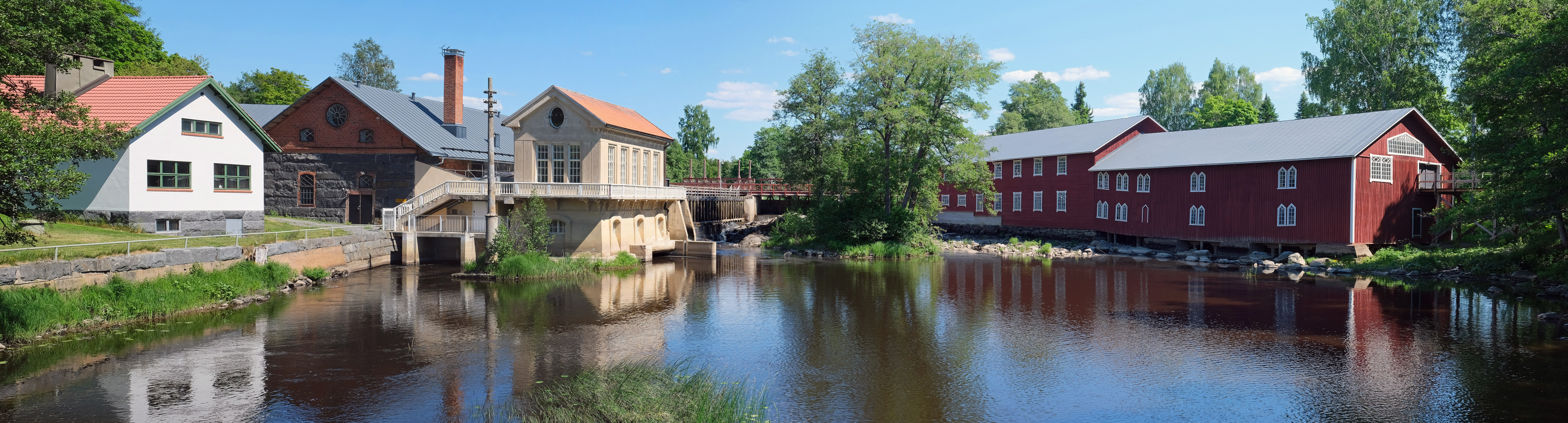 Makkarakoski Power Plant in the Noormarkku Ironworks, Pori, Finland.